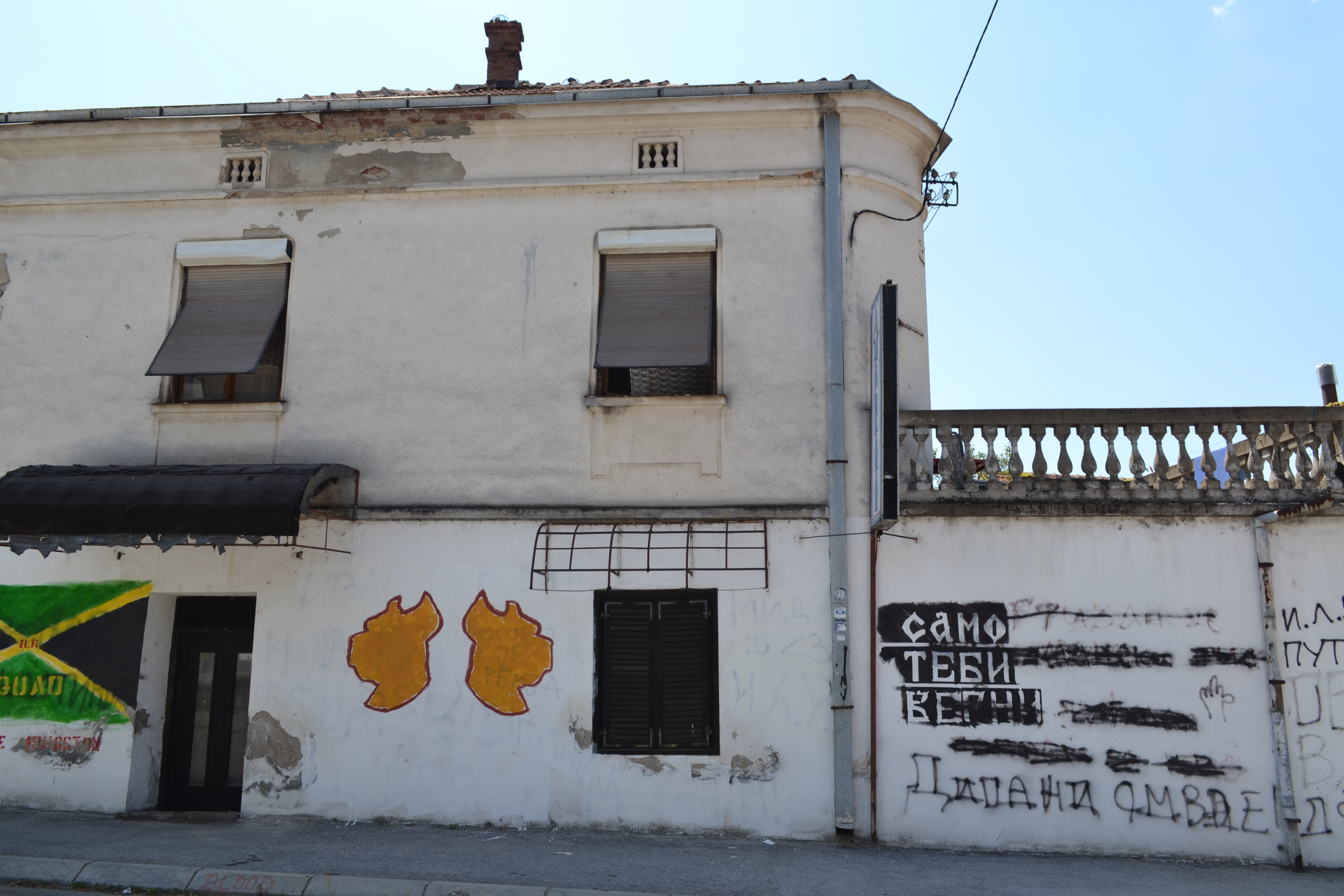 Кућа Јована Димитријевића Американца